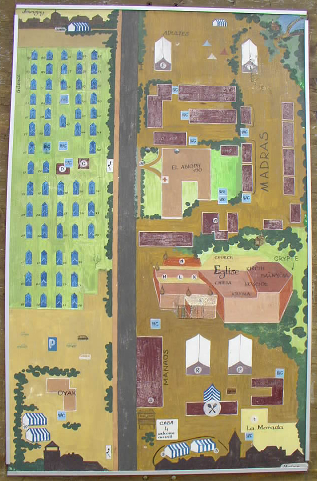 Übersichtsplan von Taizé